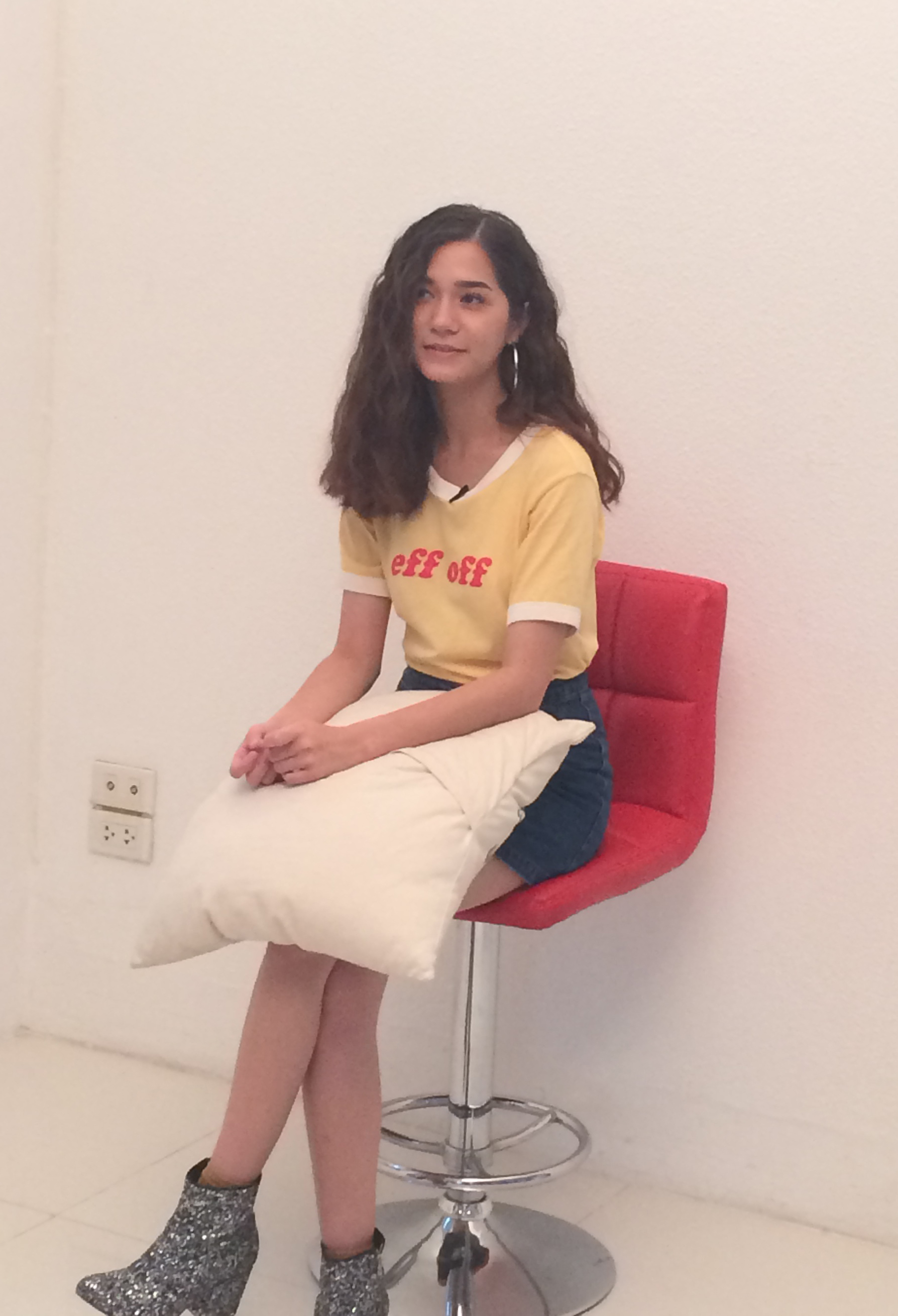 Violette Wautier at VERY TV.